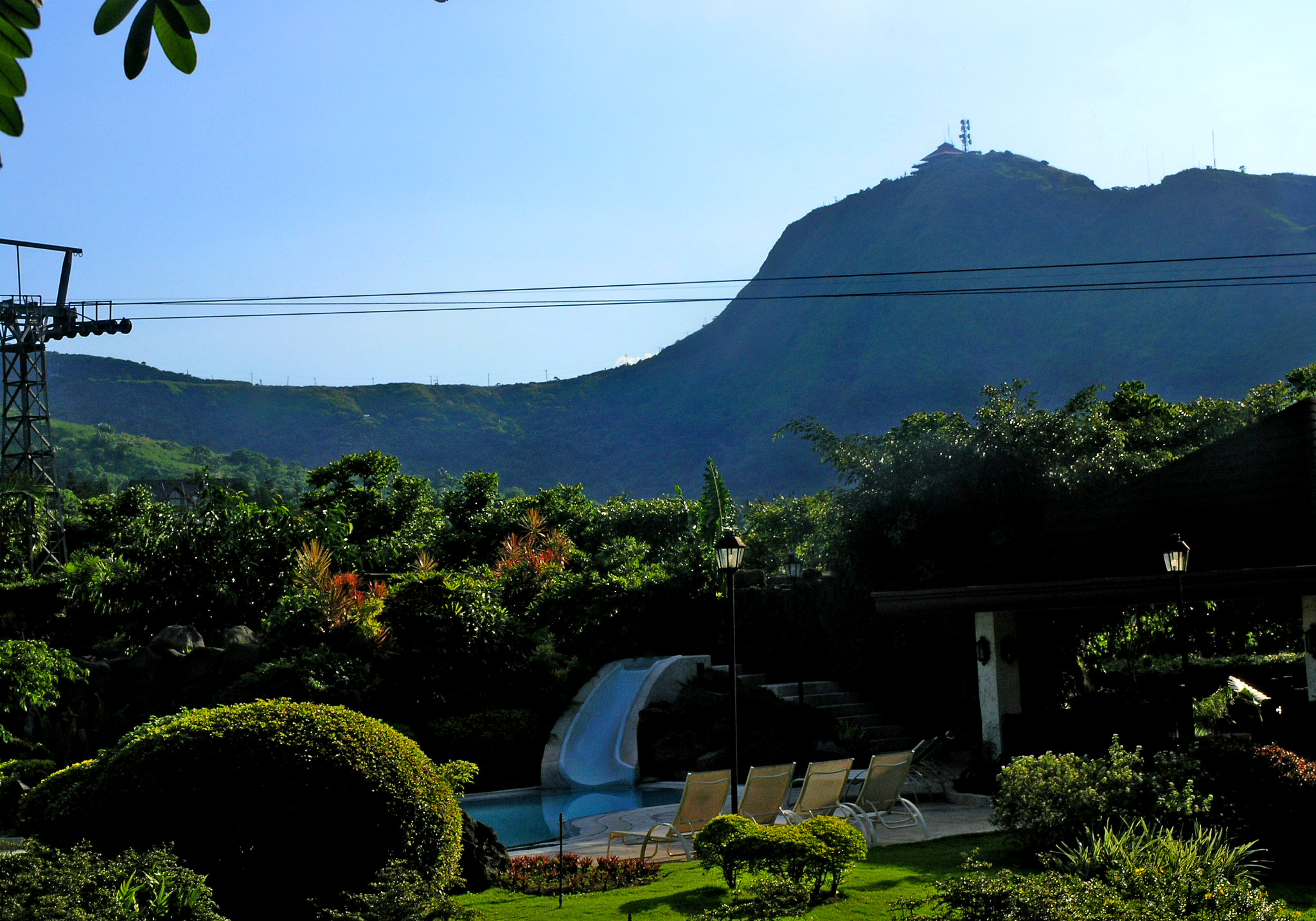 Mount Sungay, the highest Point of the Province of Cavite in the Philippines, as see from Tagaytay Highlands community.